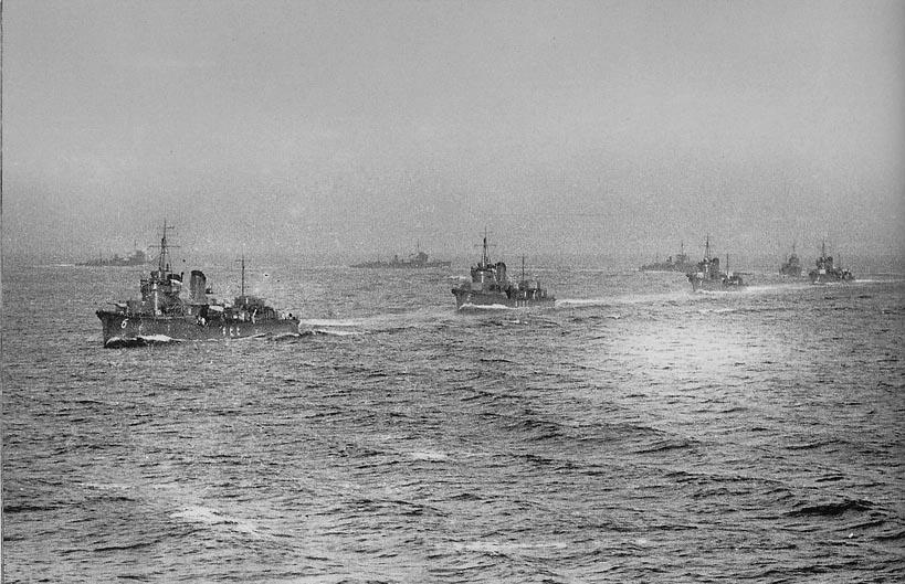 This image of the 6th division Imperial Japanese Navy destroyers Fubuki-class type-III or Akatsuki-class is believed to be copyright-free, as it is a Japanese photograph older than 50 years. If copyright exists in this image, use here is asserted to be fair use.